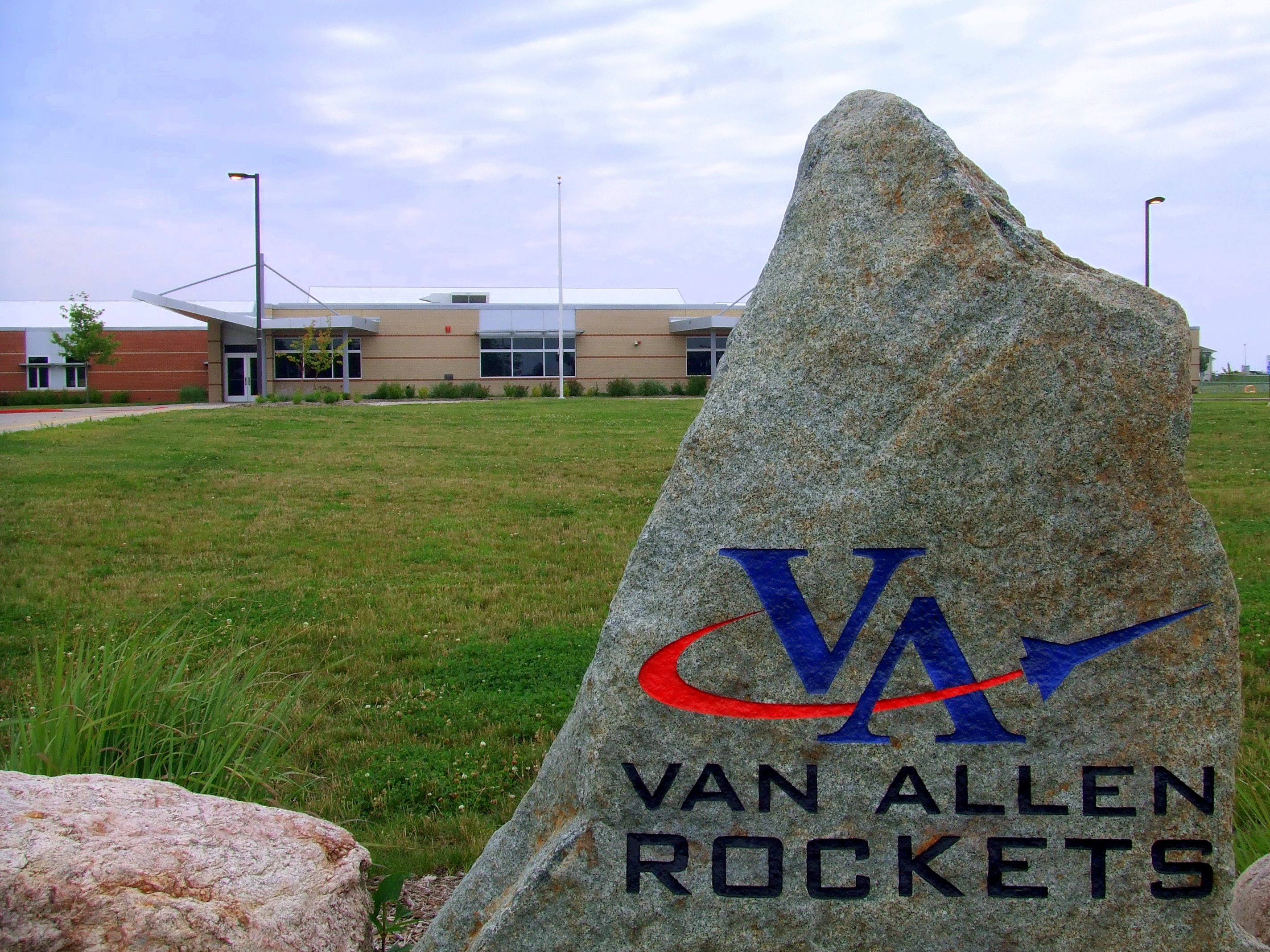 A view of James Van Allen Elementary School in North Liberty, Iowa.